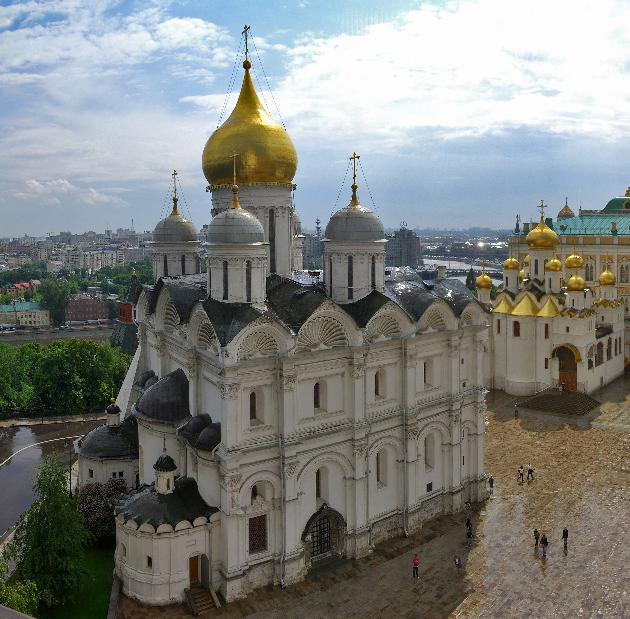 Cathedral of the Archangel in Moscow Kremli